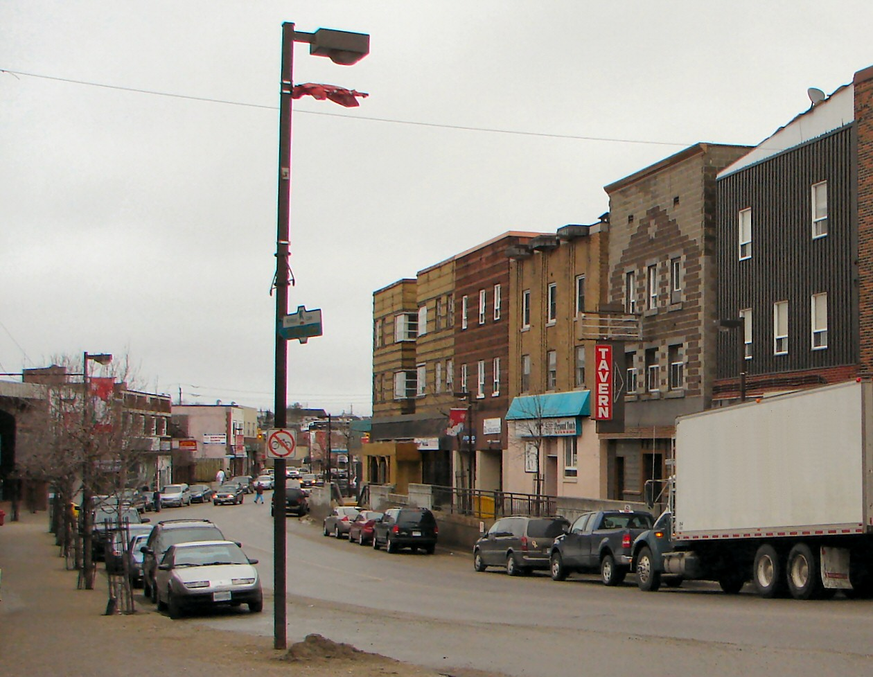 Main street in Kirkland Lake, Ontario, Canada